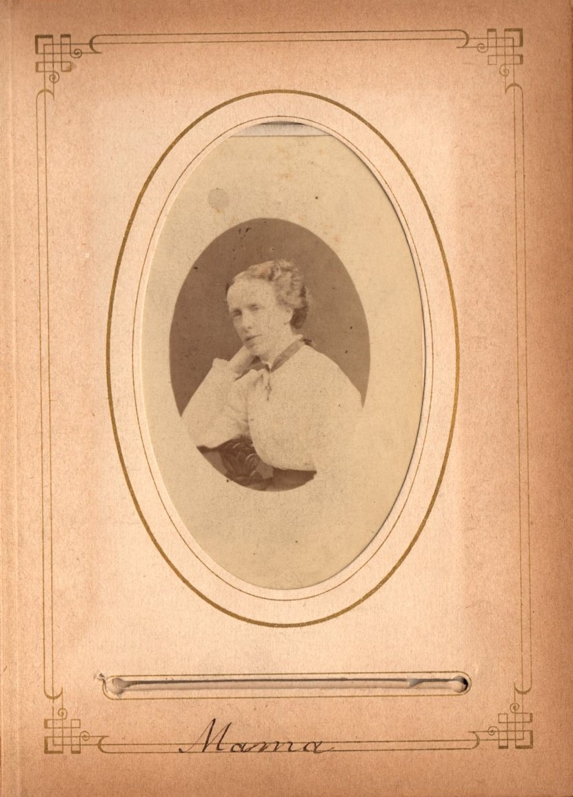 Undated picture of Dame Susannah Anderson Tilley nee Montgomerie